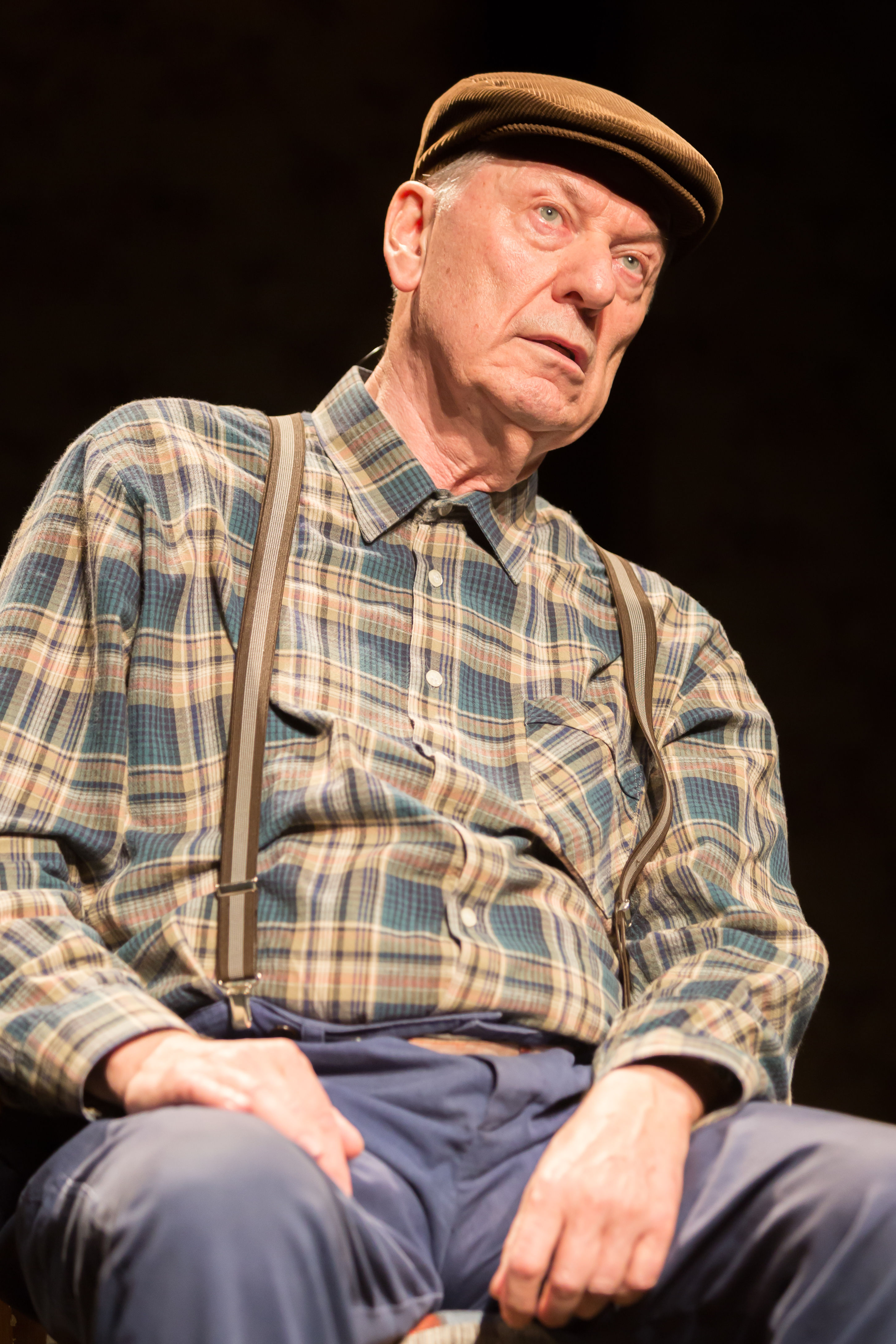 The German cabaret artist and writer Gerd Dudenhöffer as fictional character “Heinz Becker” on stage with his program Gerd Dudenhöffer als Heinz Becker – Die Welt rückt näher at Pantheon-Theater, Bonn